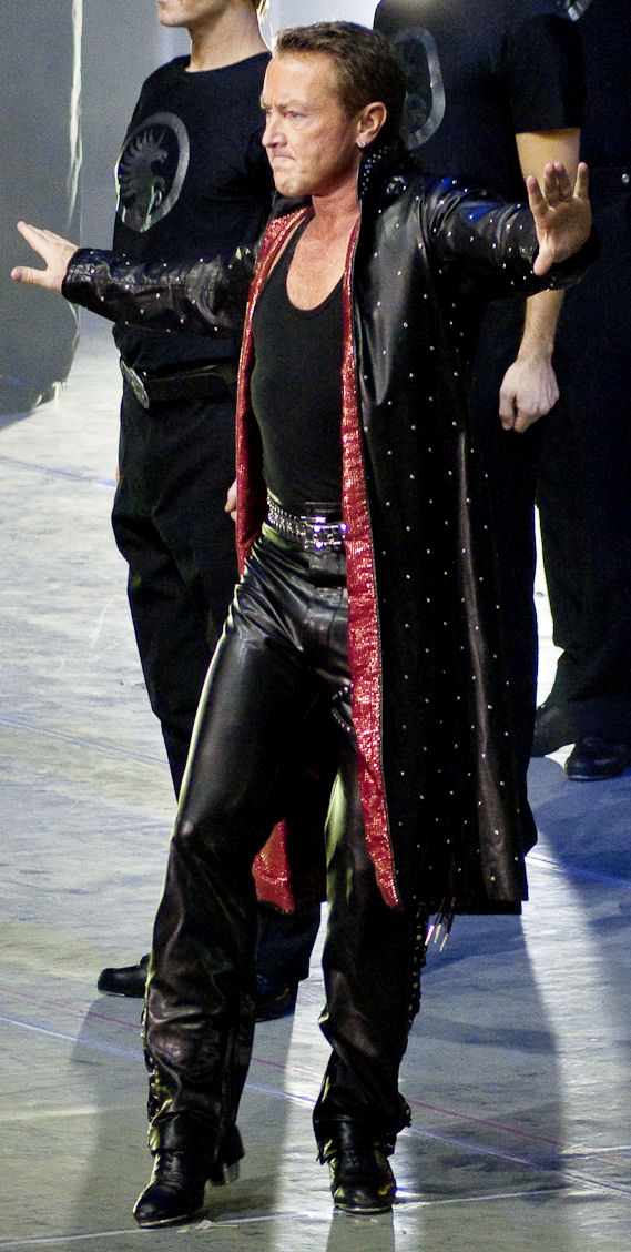 Irish dancer Michael Flatley